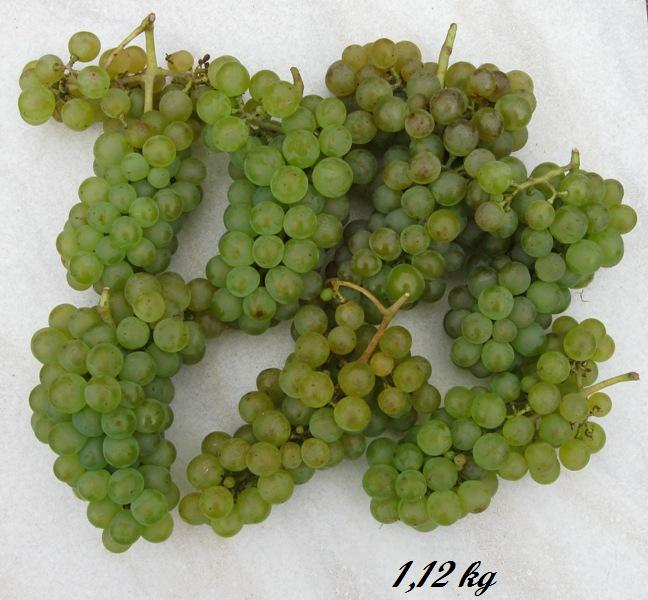 The weight of the grapes 'Solaris'